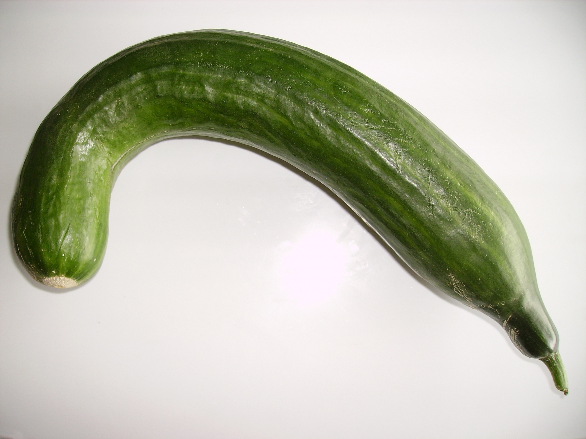 A bended cucumber